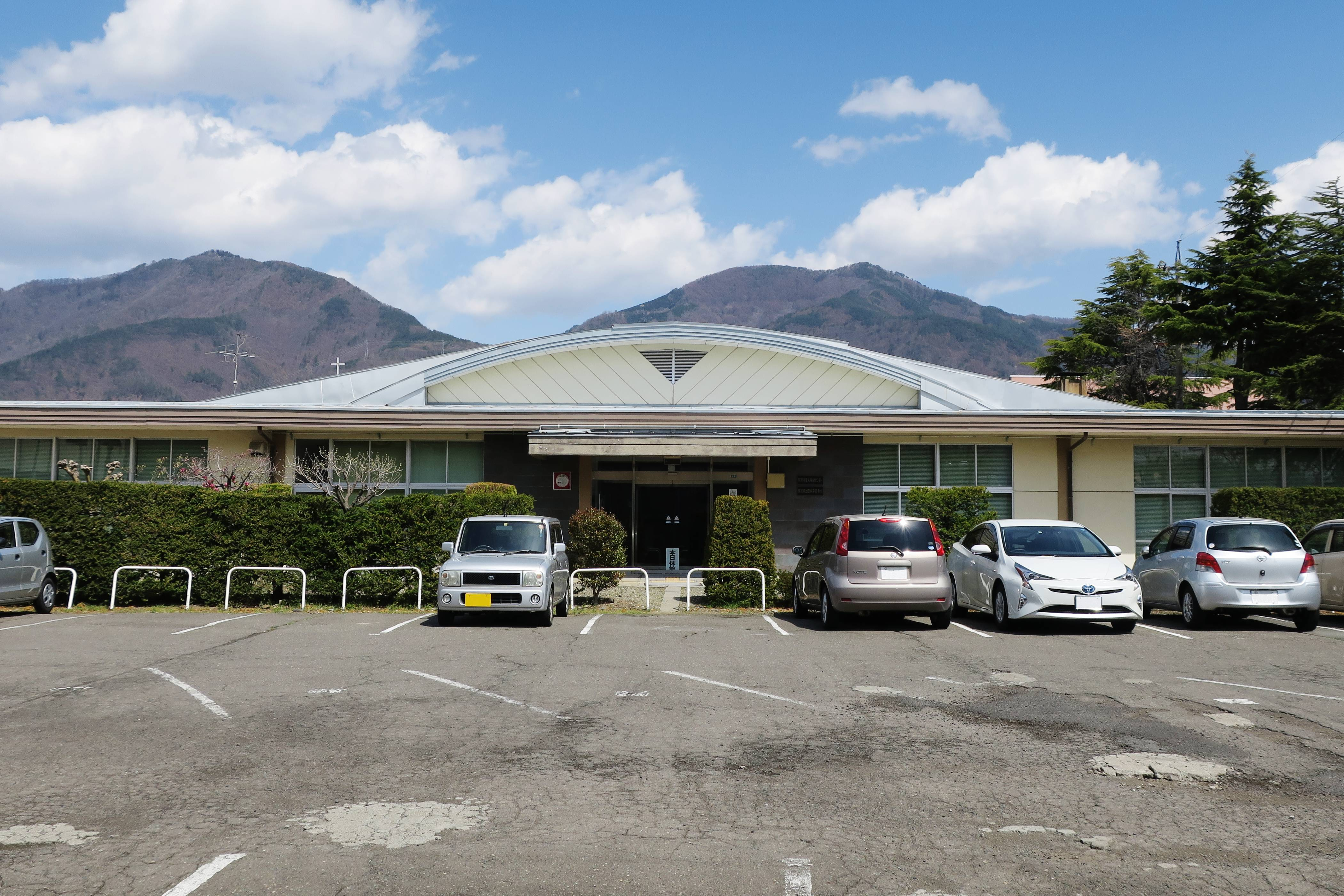 Ueda Braille Library (Ueda, Nagano).